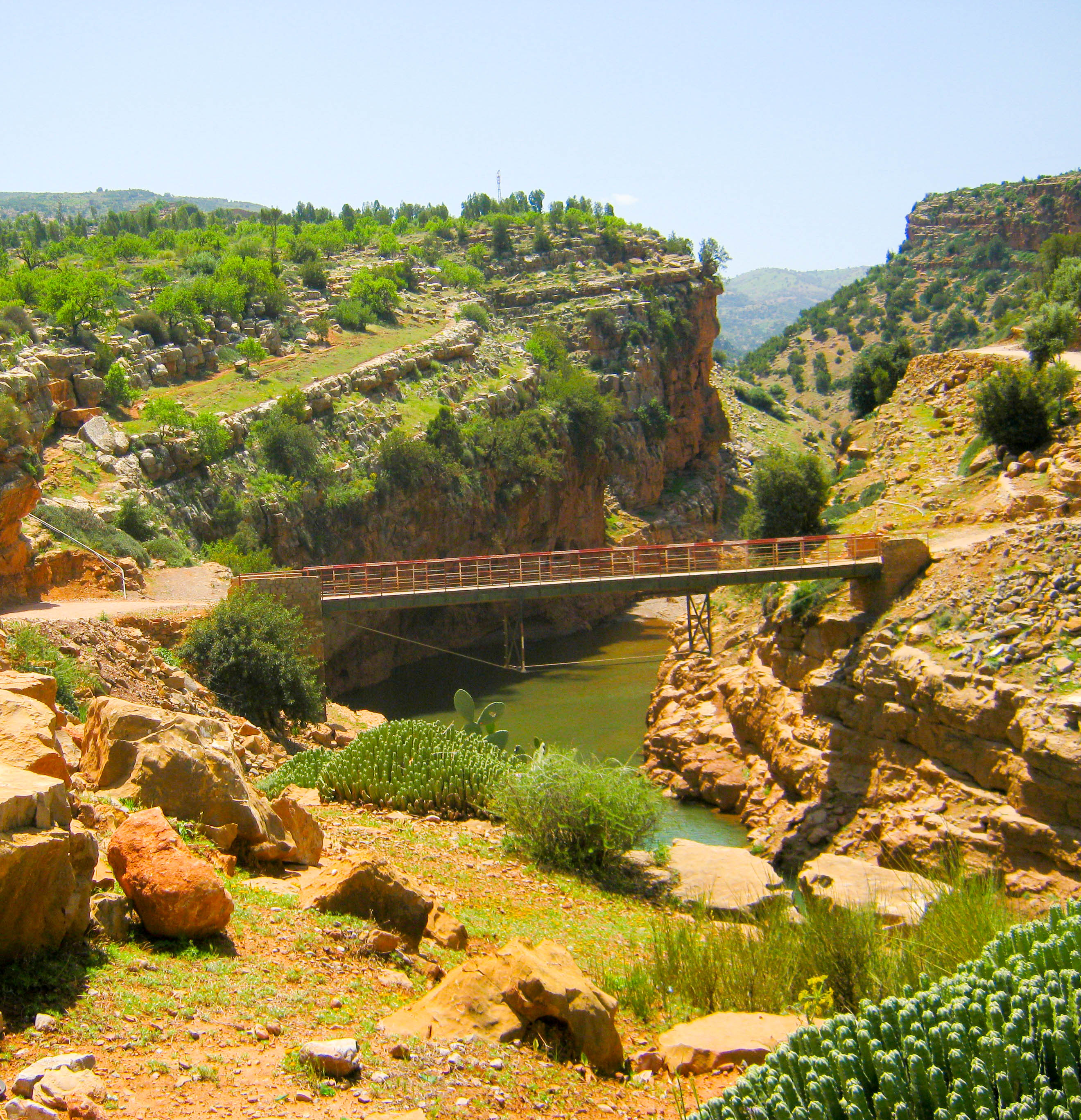 Bin El Ouidane in Azilal Province of the Tadla-Azilal region of Morocco